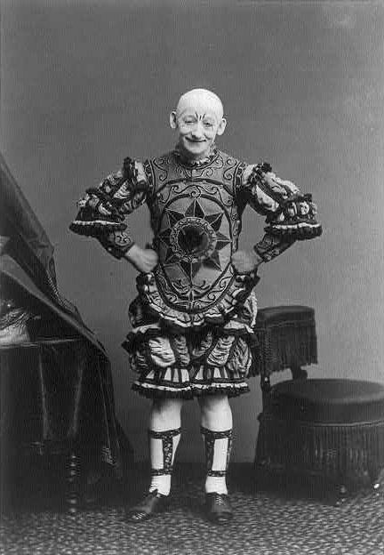 George L. Fox - One of the most famous pantomimes